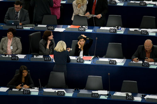 Rachida Dati (seated desk 418) in the European Parliament in Strasbourg, France. Photo: Christian Wohlert